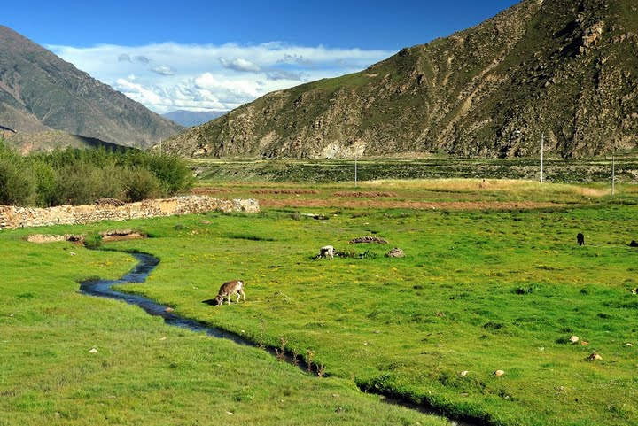 Near Tsurphu Monastery, Doilungdêqên County, Tibet